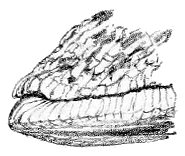 Drawing of right view of the posterior part (tail end) of Geomalacus maculosus. Ethanol preserved specimen.